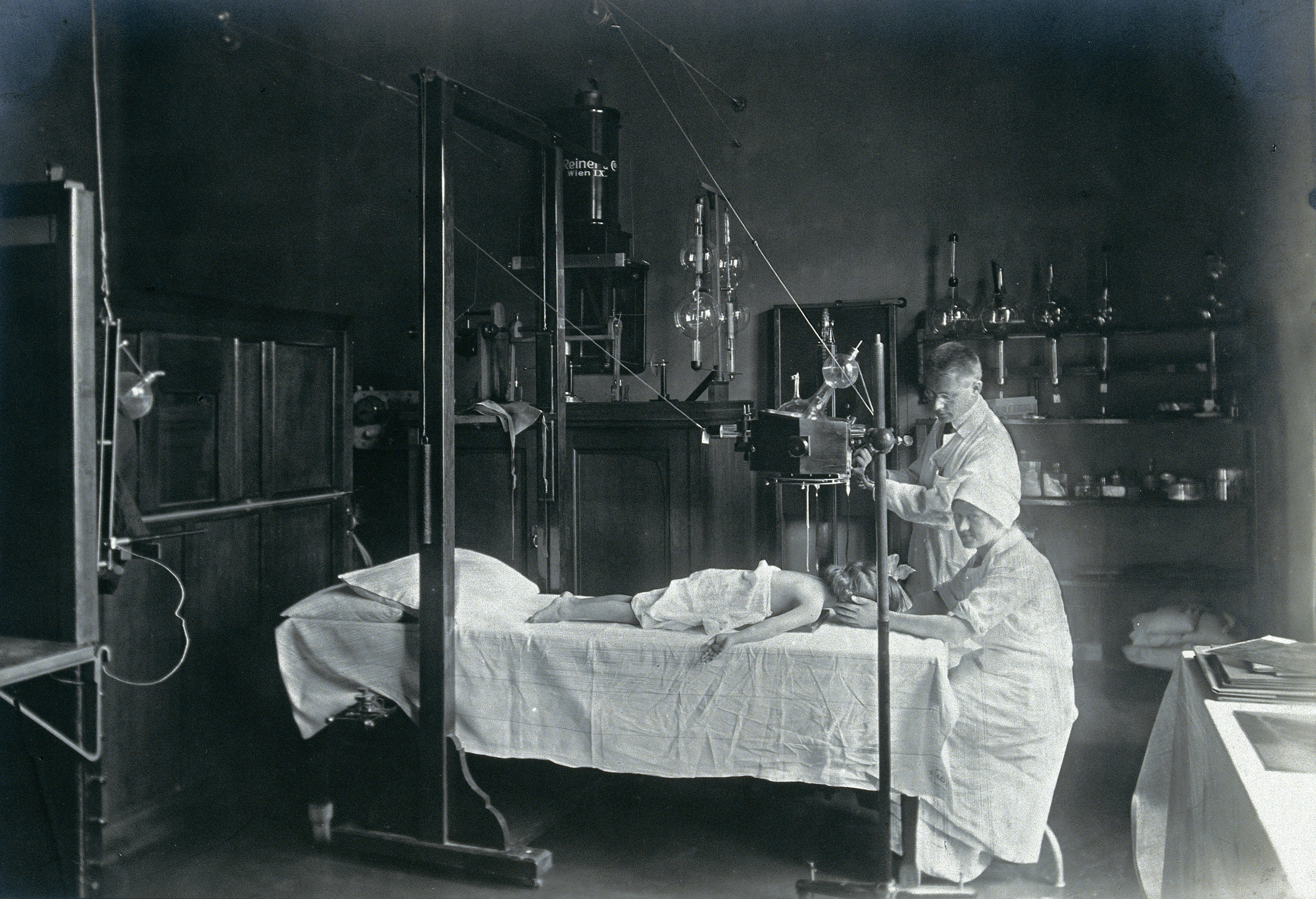 University Children's Hospital, Vienna: a child having an x-ray. Photograph, 1921. Iconographic Collections Keywords: Universitäts-Kinderklinik (Vienna, Austria)